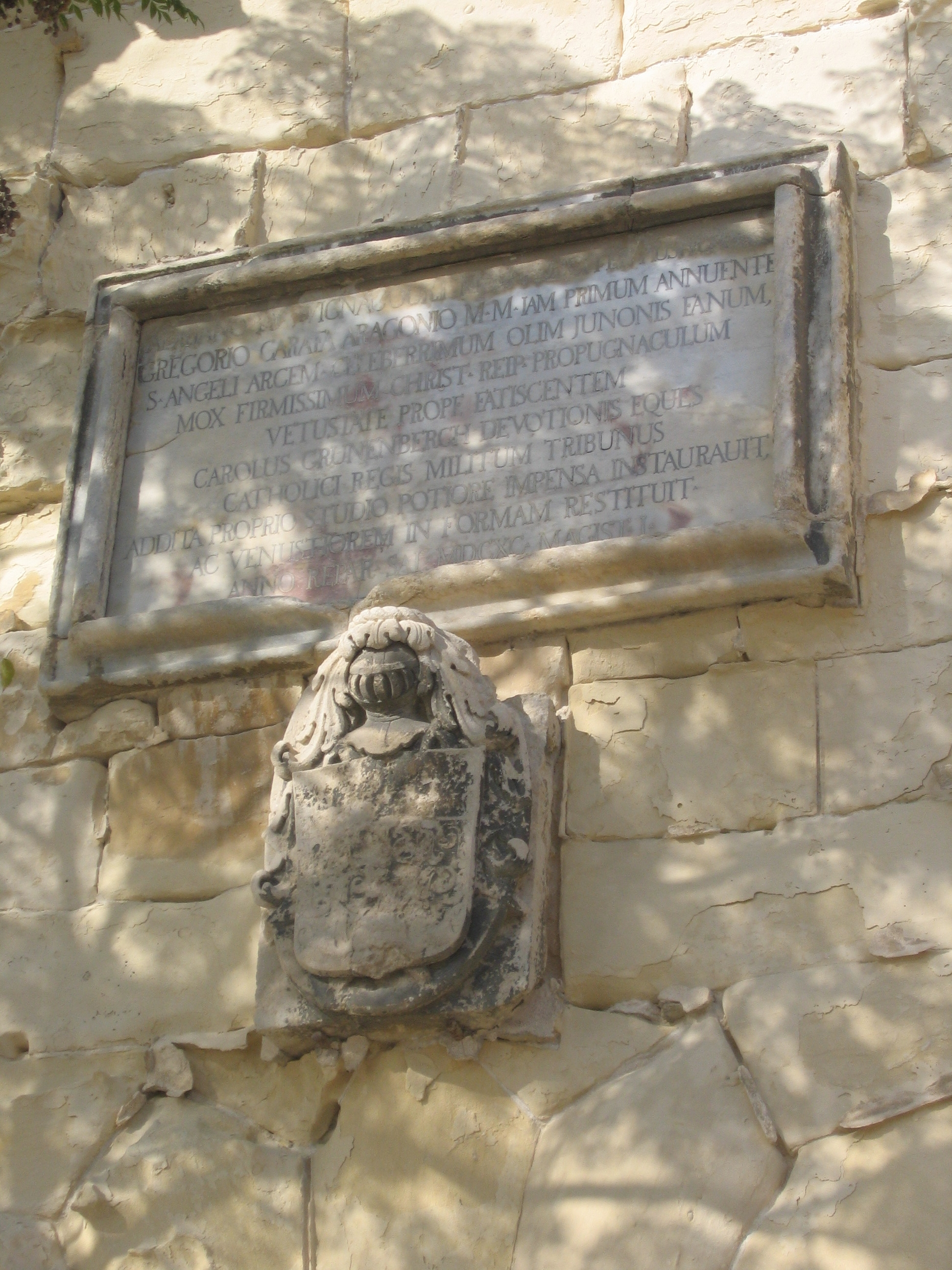 Inscription above the gate, Fort St Angelo, Malta